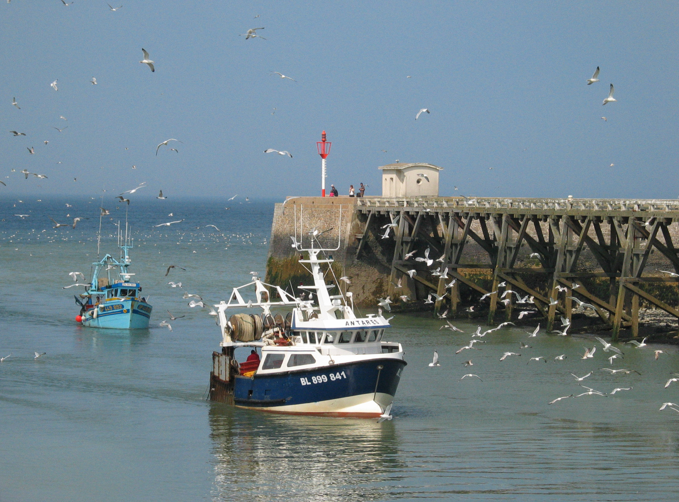 Le Tréport : ships in the port